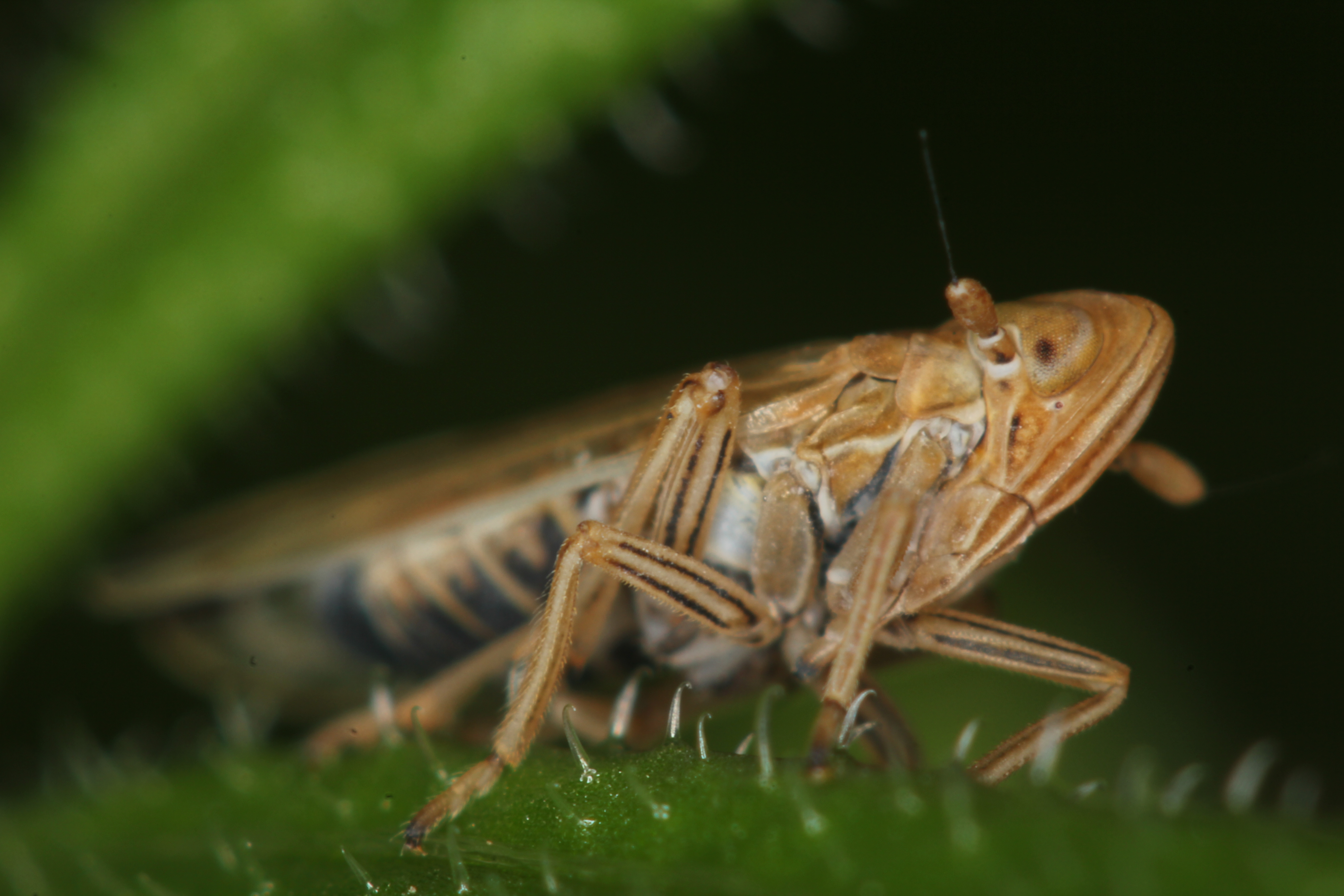 Stenocranus minutus from England.